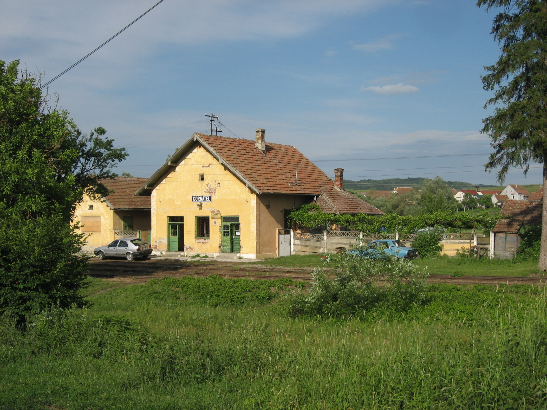 The former trainstation of Cornățel, Valea Hârtibaciului, Transylvania, Romania